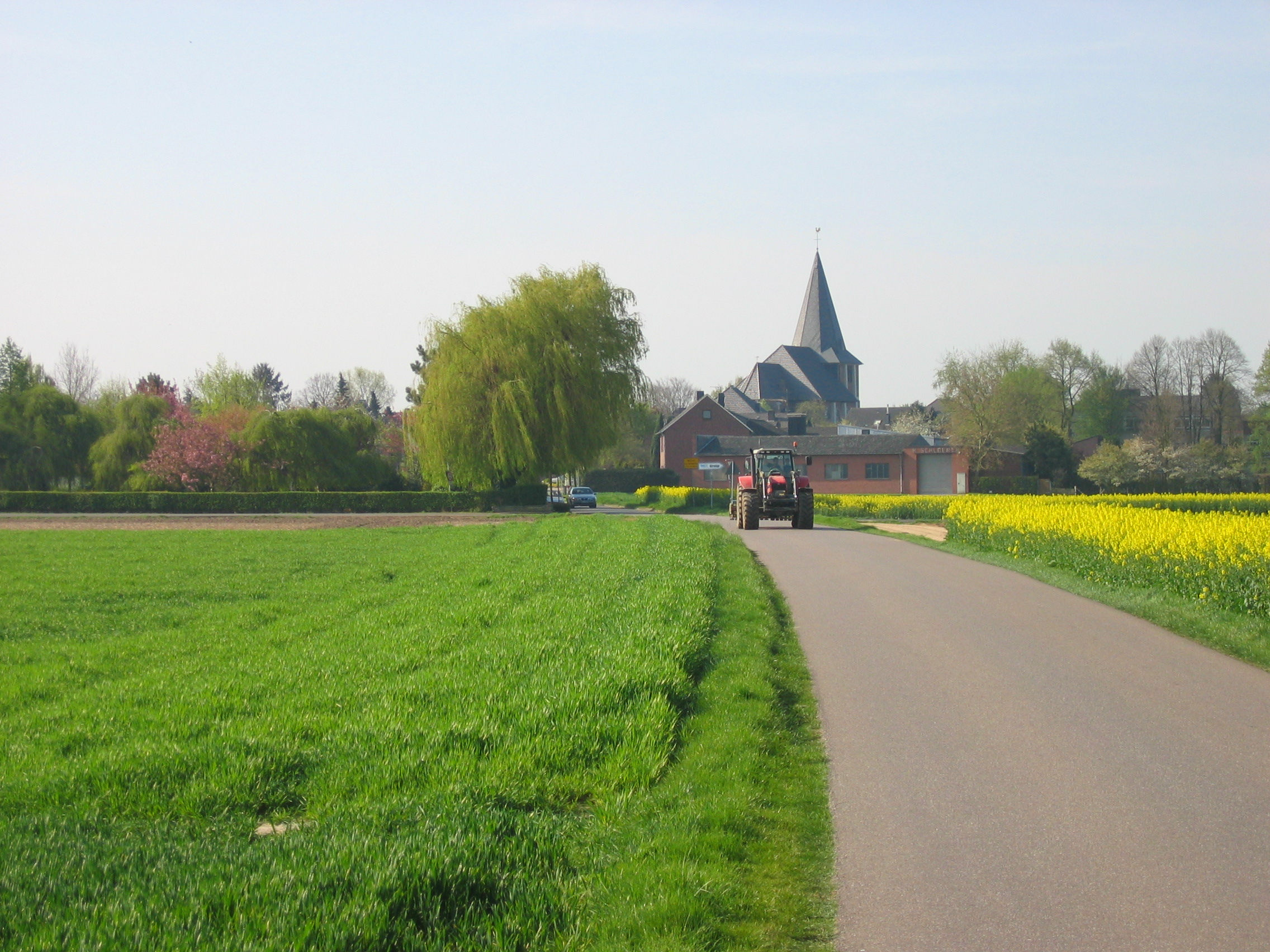 Würm, April 2007 (North Rhine-Westphalia, Germany)